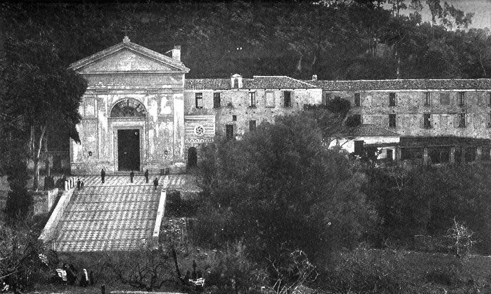 old sanctuary of "Eremo della Madonna della Consolazione"